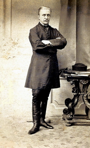 István Melczer (1810-1896), chief justice of Hungary (1861-1867)